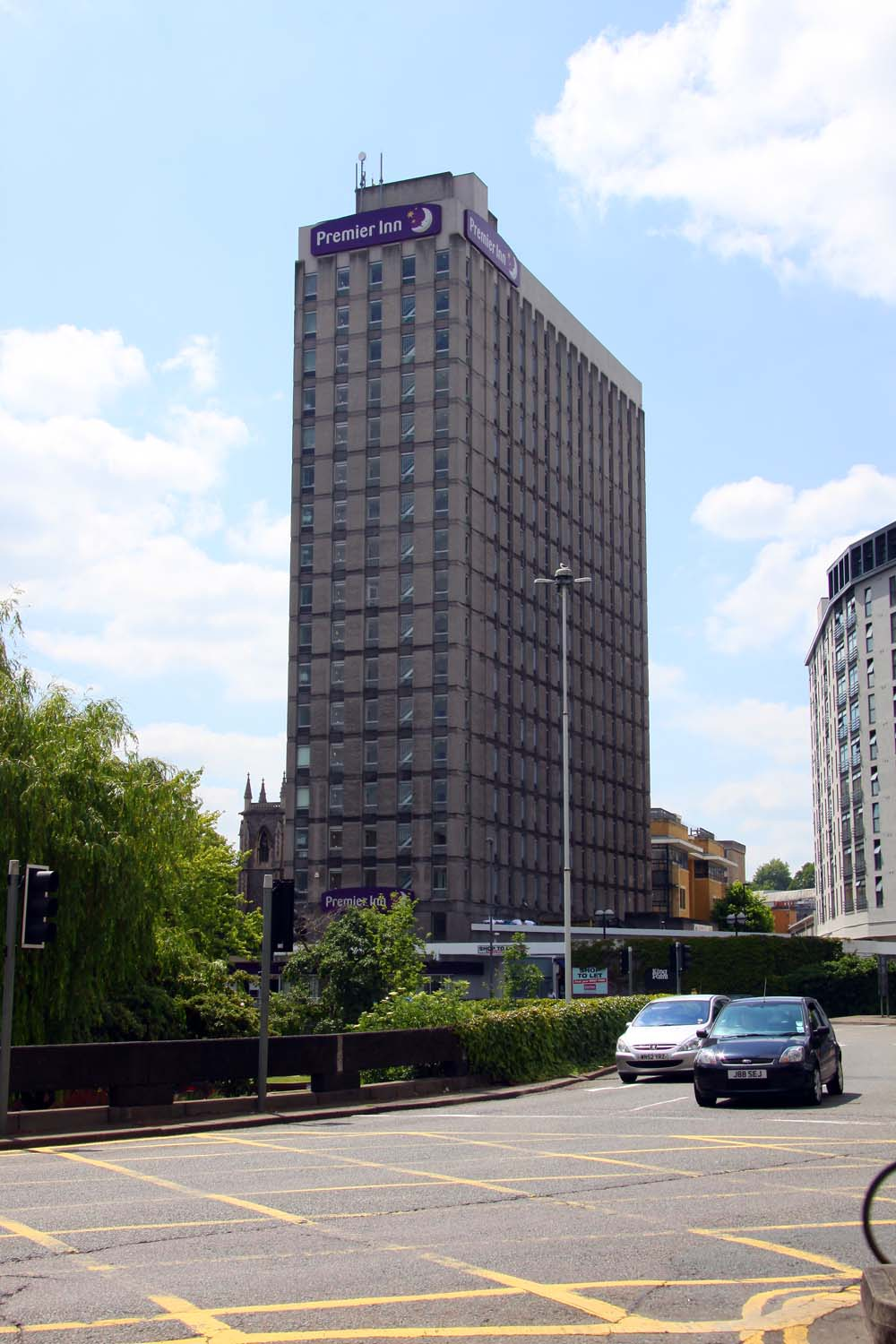 Premier Inn on St James Barton, Bristol. Former headquarters of Avon County Council